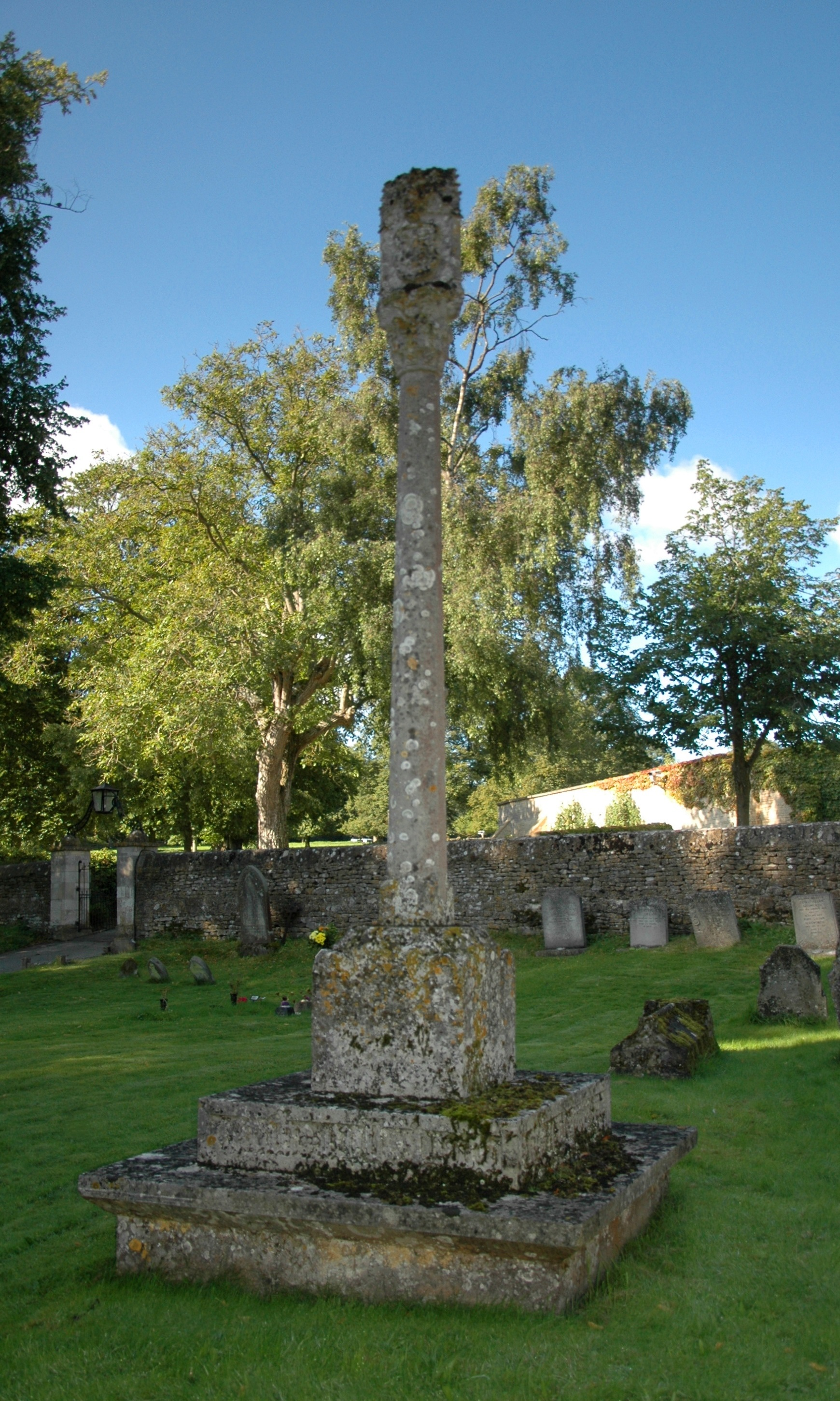 St Mary's parish churchyard, Glympton, Oxfordshire: stone cross erected in 1897 in memory of Henry Barnett MP